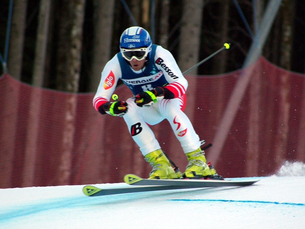 Austrian alpine skier Philipp Schörghofer during the European Cup Giant Slalom in Hinterstoder, Austria on January 11, 2008.